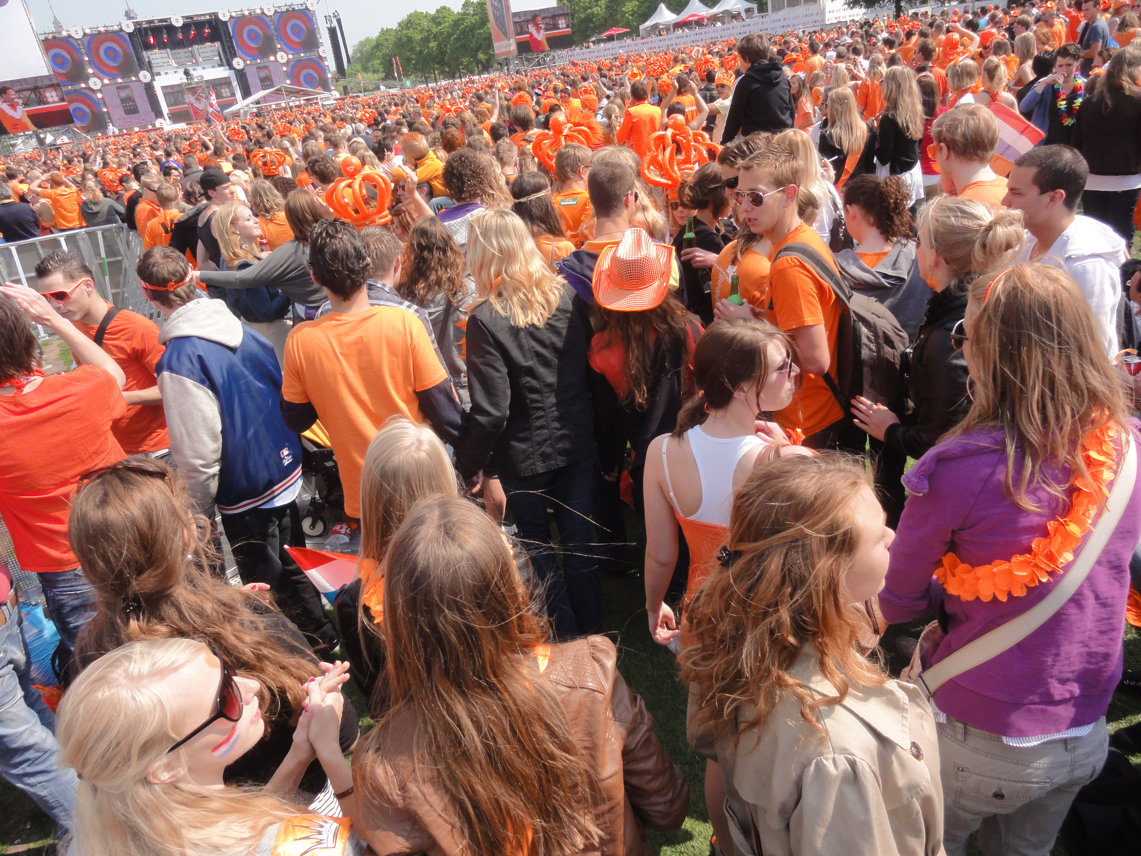 People in orange celebrating Queensday in Museumplein in Amsterdam.